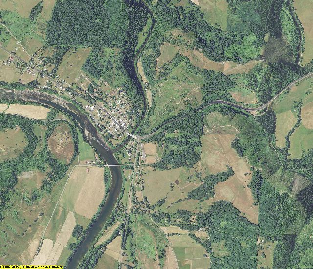 An aerial view of Douglas County, Oregon, probably the Umpqua River at Elkton